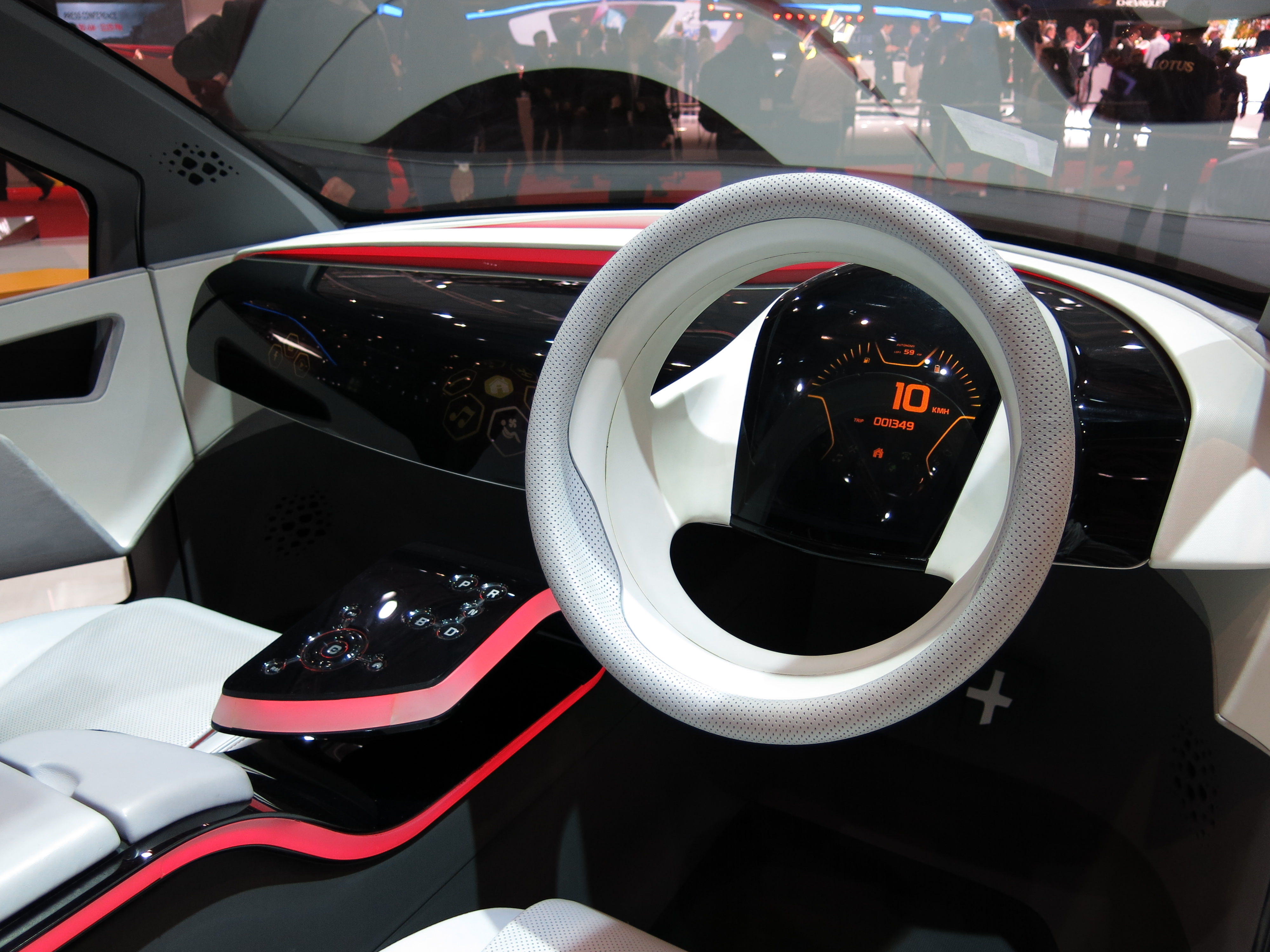 Geneva Motor Show 2015 (photo taken on the first press day)